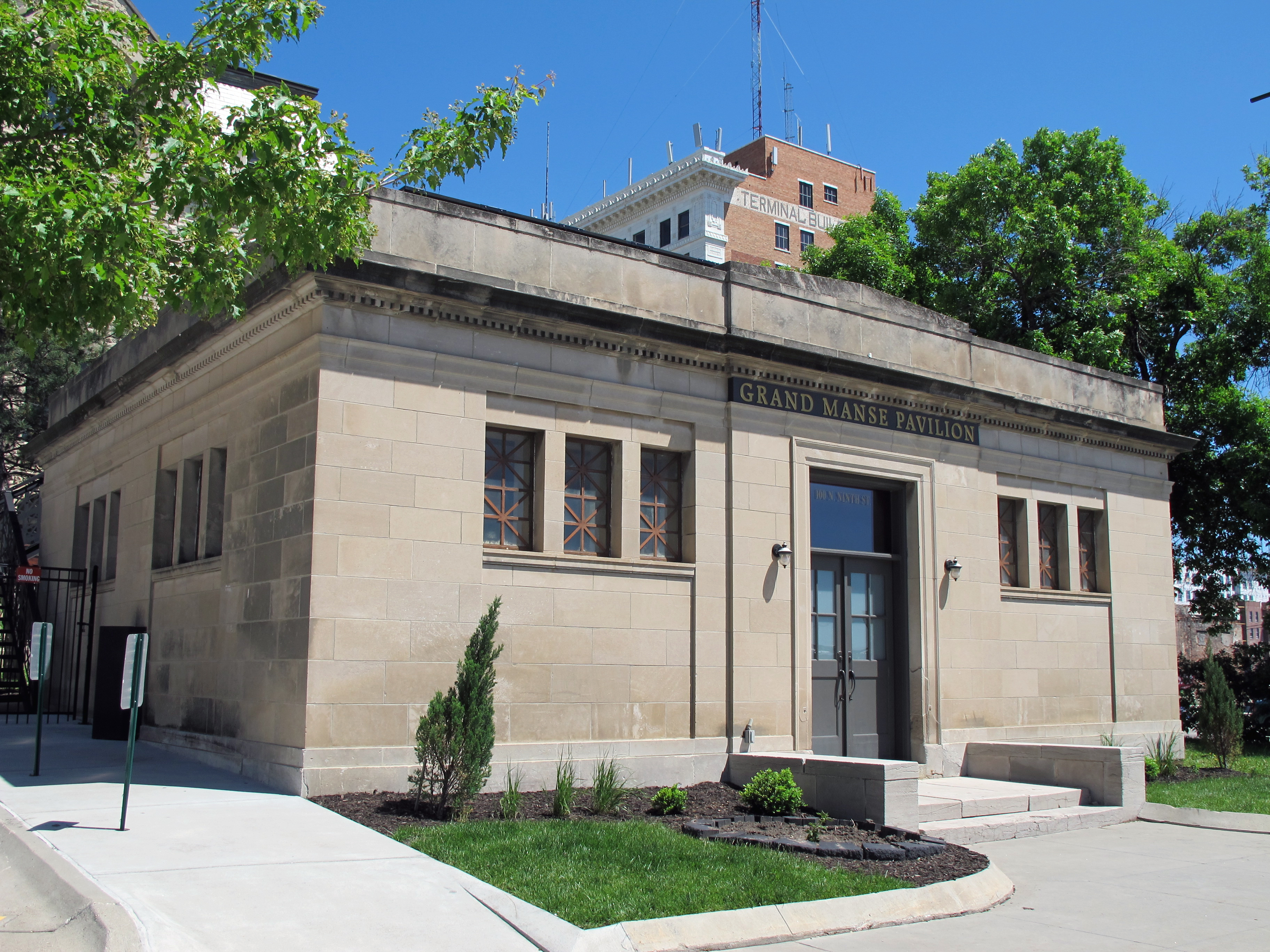 Photo of Grand Manse Pavilion, 100 N. 9th Street, Lincoln, Nebraska. Photo is of the west side of the building from the west-northwest. The Grand Manse Pavilion was originally the Municipal Comfort Station.